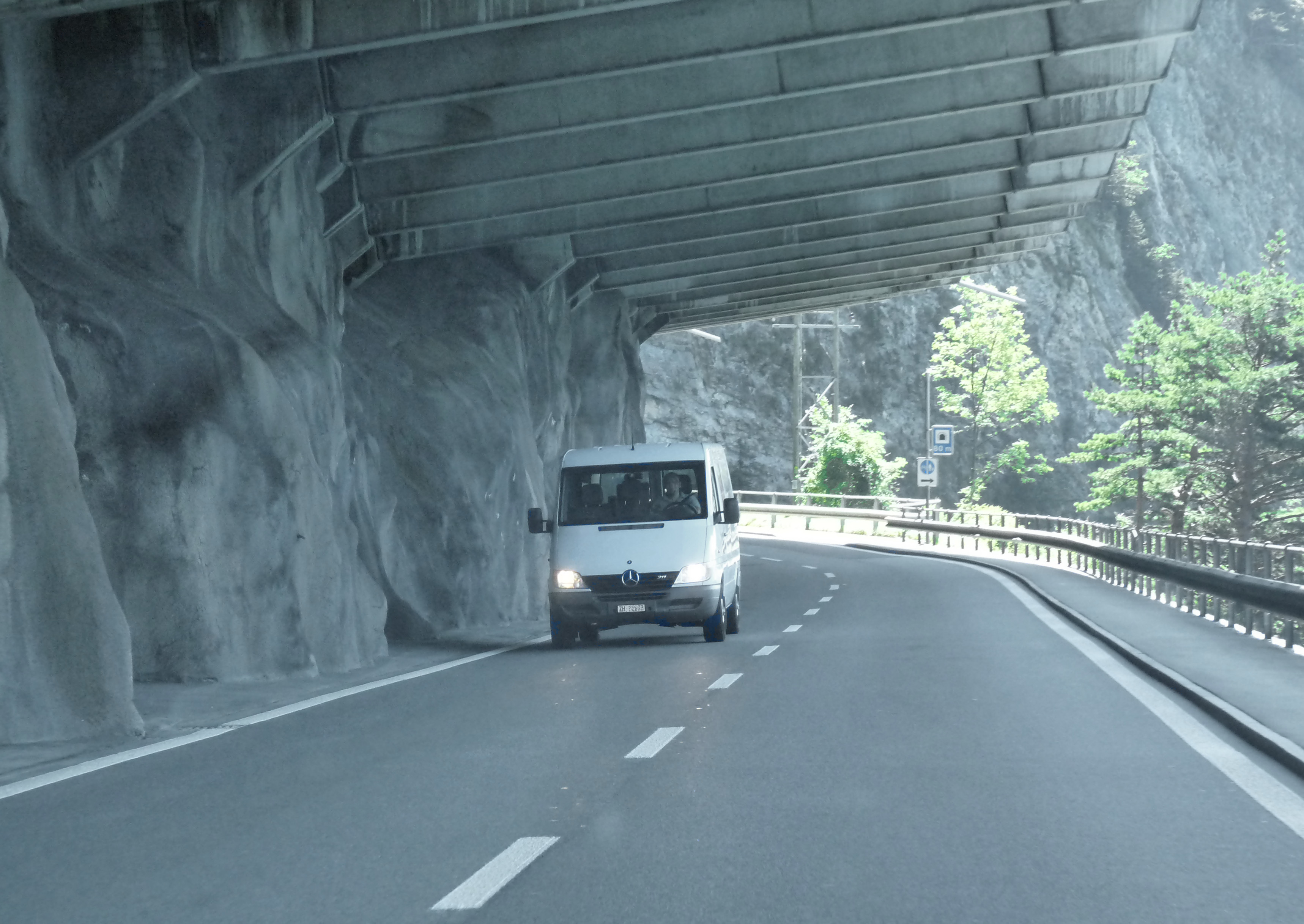 Avalanche protection near Flüelen